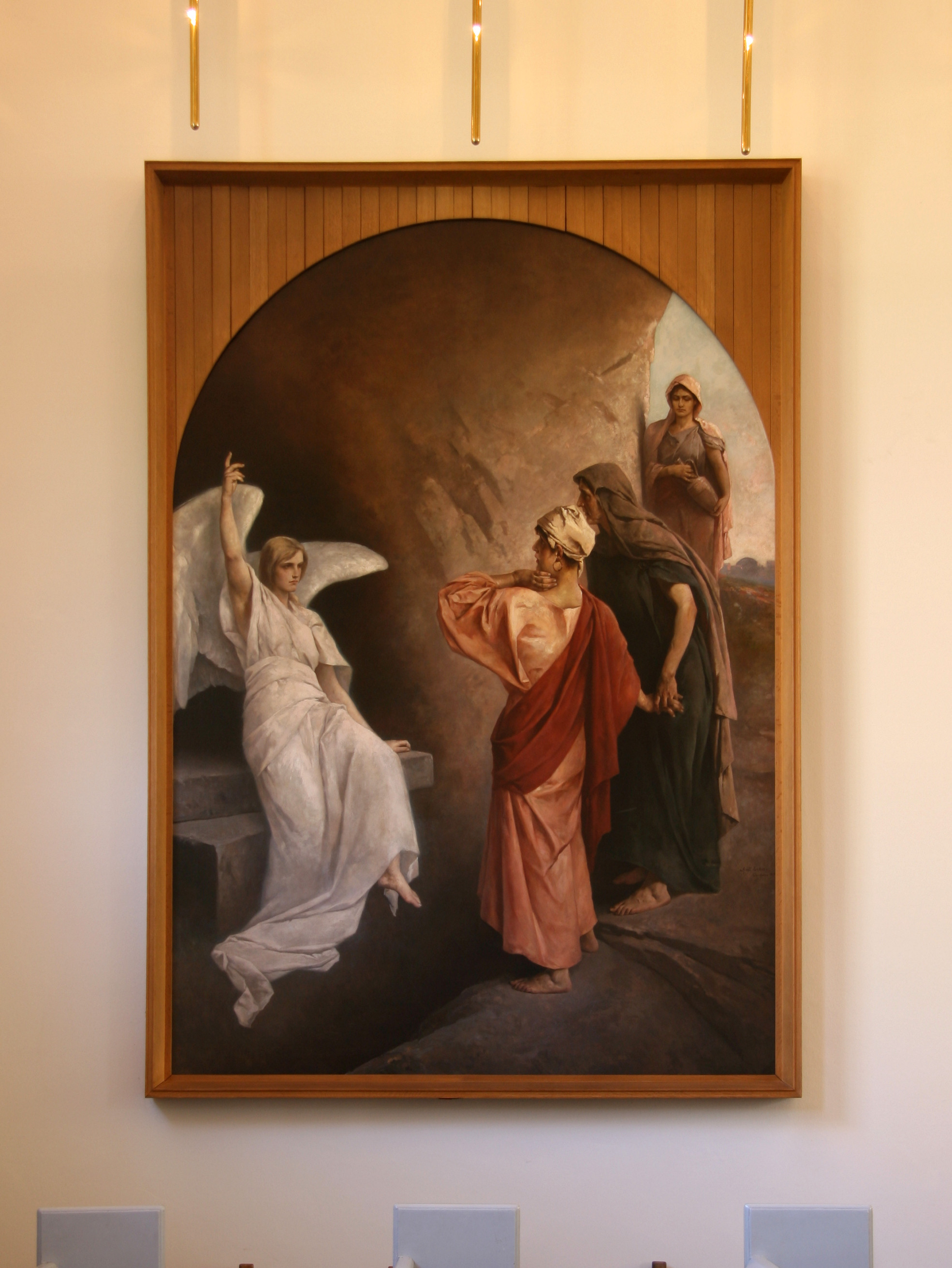 Painting on east wall of north transcept. Former altarpiece.